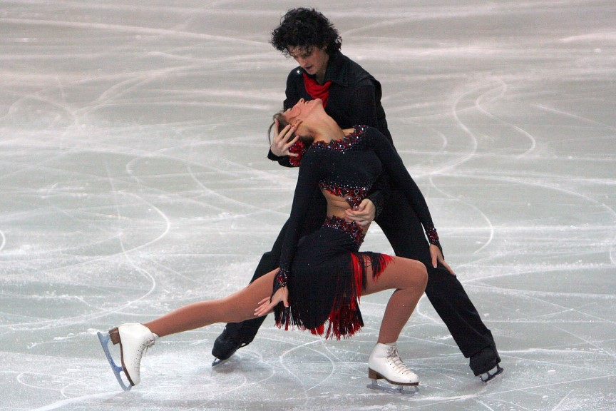 Nóra Hoffmann & Attila Elek at the 2007 European Figure Skating Championships (OD-Tango)